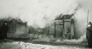 Burning houses in China in the 1890s during bubonic plague pandemic.